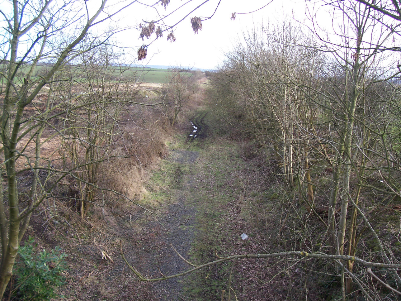 The site of Cunninghamhead railway station in February 2007.